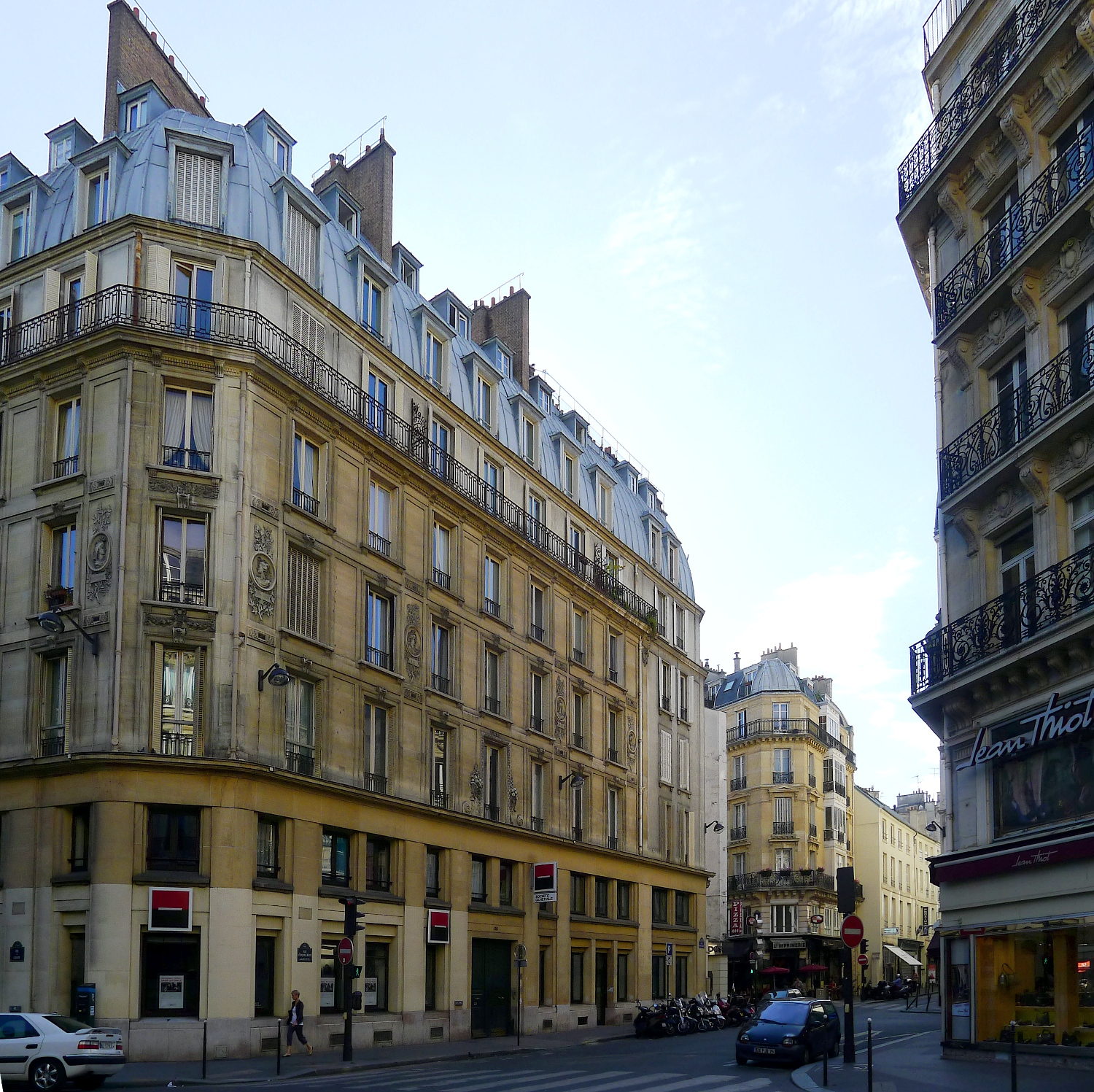 Coquillière street - Paris